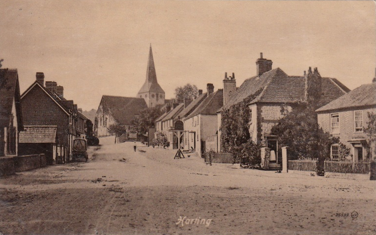 View of South Harting, Sussex, England, about 1905